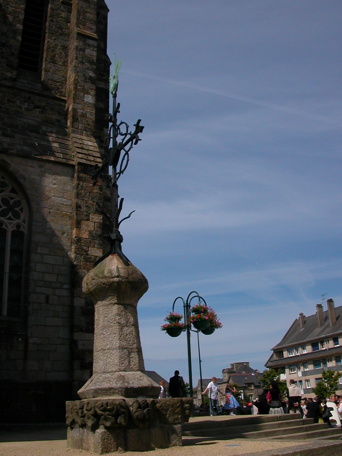 Church of Pleurtuit: spire of the steeple destroyed during WW2